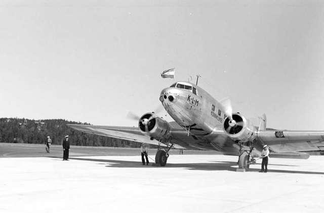 This KLM Douglas DC-2 was the first plane to land at Oslo Airport, Fornebu during the official opening on 1 June 1939.